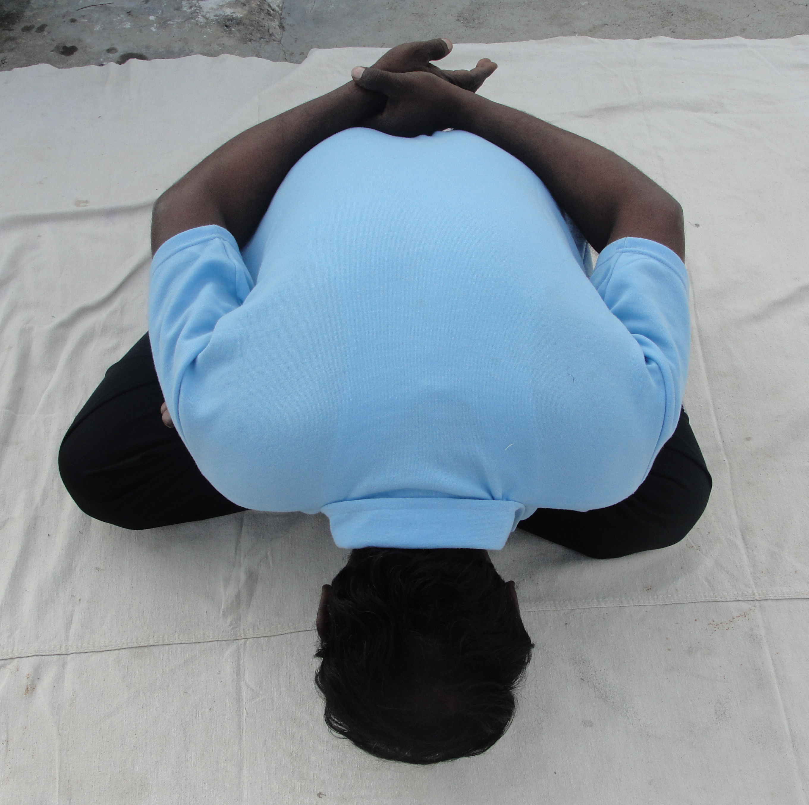 A scene of Yoga mudra